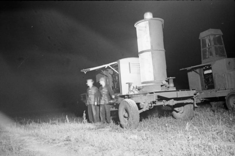 IWM caption : A Chance Light, a powerful runway floodlight on a trailer, in operation at Pocklington, Yorkshire. Behind the Chance Light is the Airfield Identification Beacon, also on a trailer.